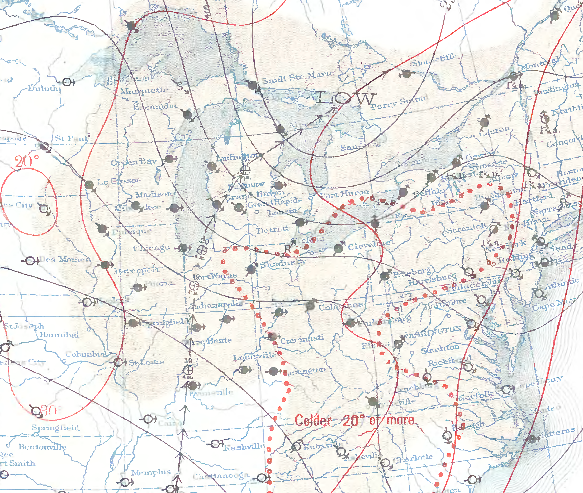 Surface weather analysis of 1916 Atlantic hurricane 14 on 21 October 1916.